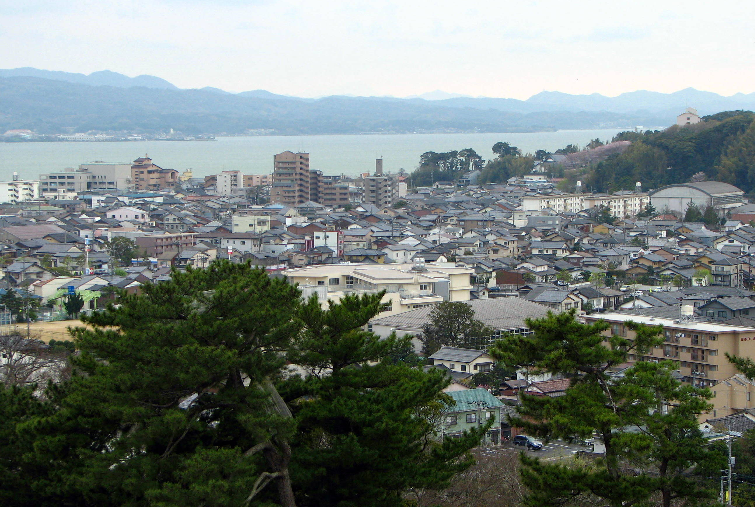 Matsue, view from Matsue Castle, Shimane Prefecture, Japan